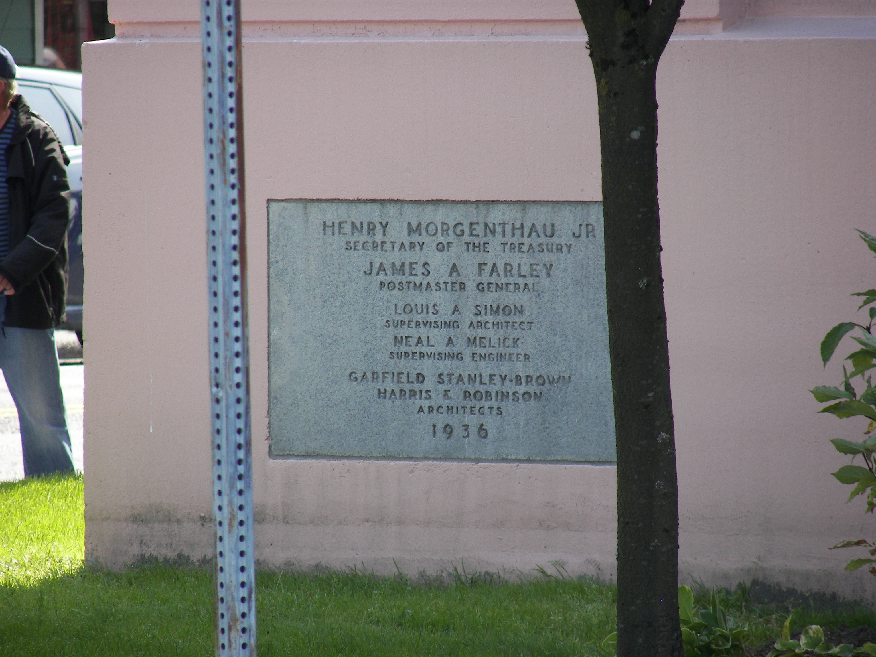 Plaque on the front of the Ketchikan Federal Building in Ketchikan, Alaska, United States. Built in 1938, the courthouse is on the National Register of Historic Places.